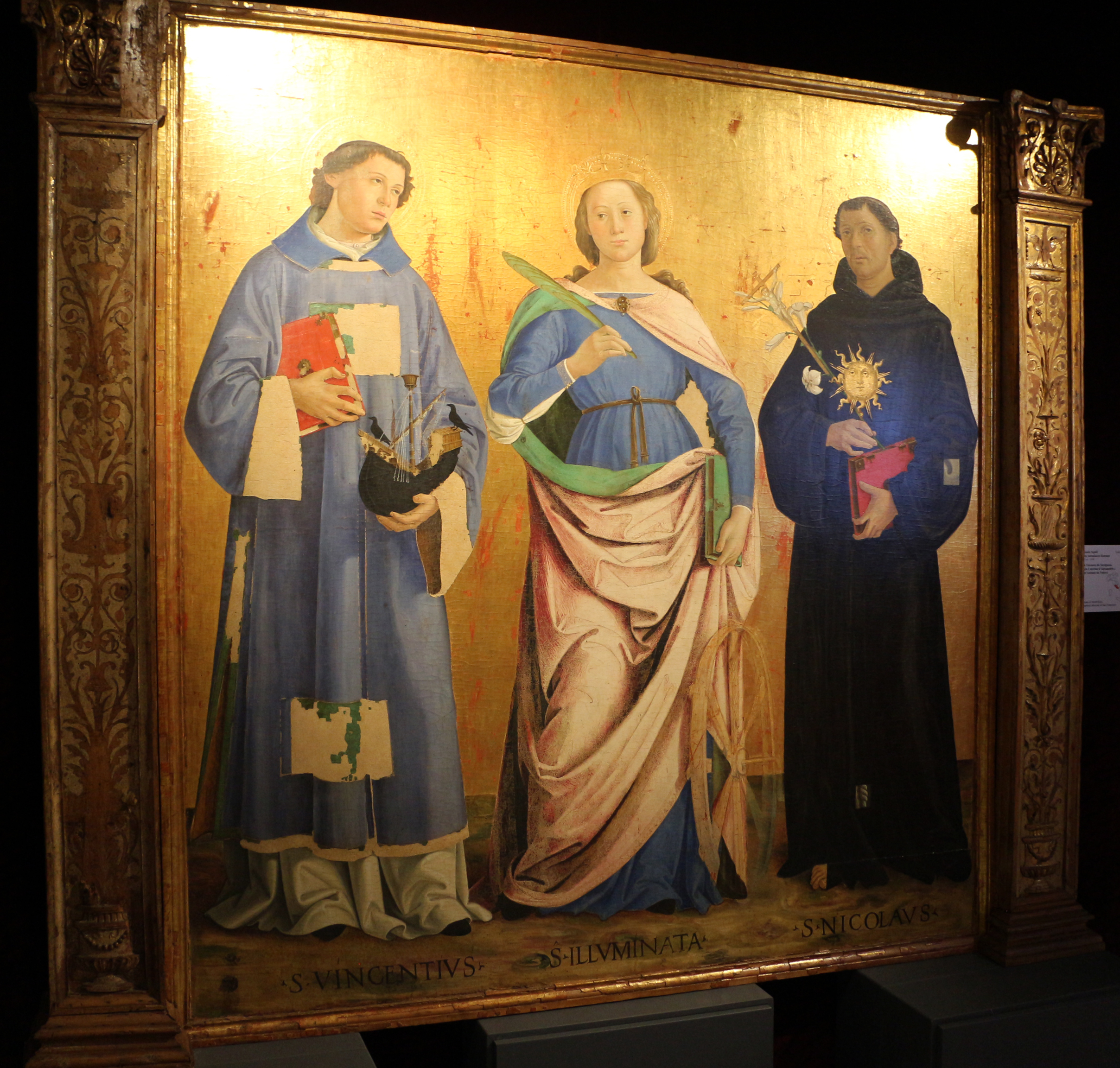 Il Tesoro d'Italia (exhibition at Expo 2015)